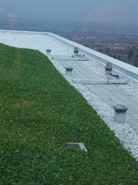 Polytechnique of Montreal, roof view of Lassonde buildings. Photo by: user:gene.arboit